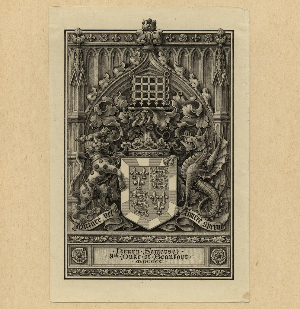 Armorial/Heraldic Bookplates. Subject: Coat of arms; Shields; Armor; Animals. Subject - Personal Name: Somerset, Henry.